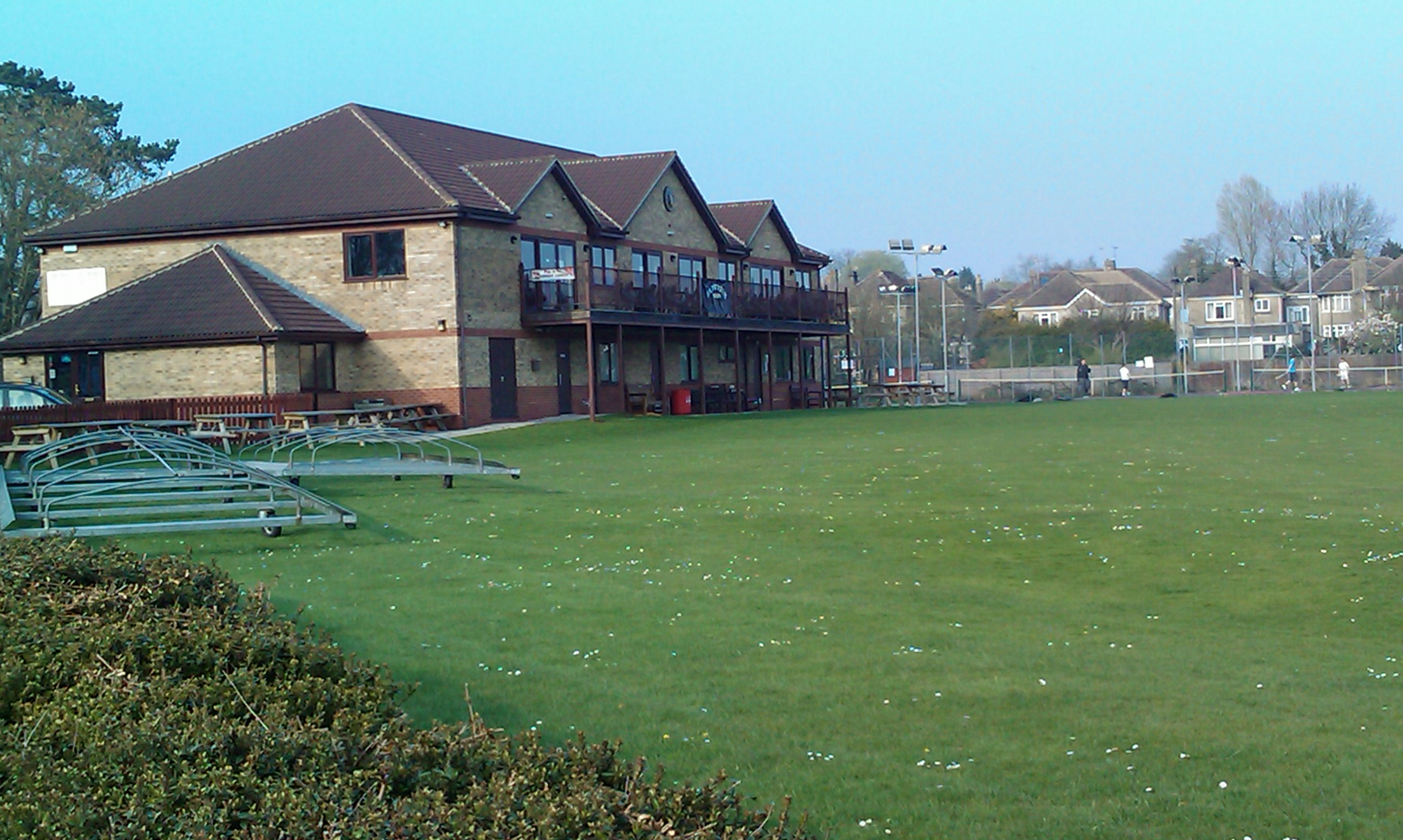 Chippenham Sports Club CSC PAVILLION